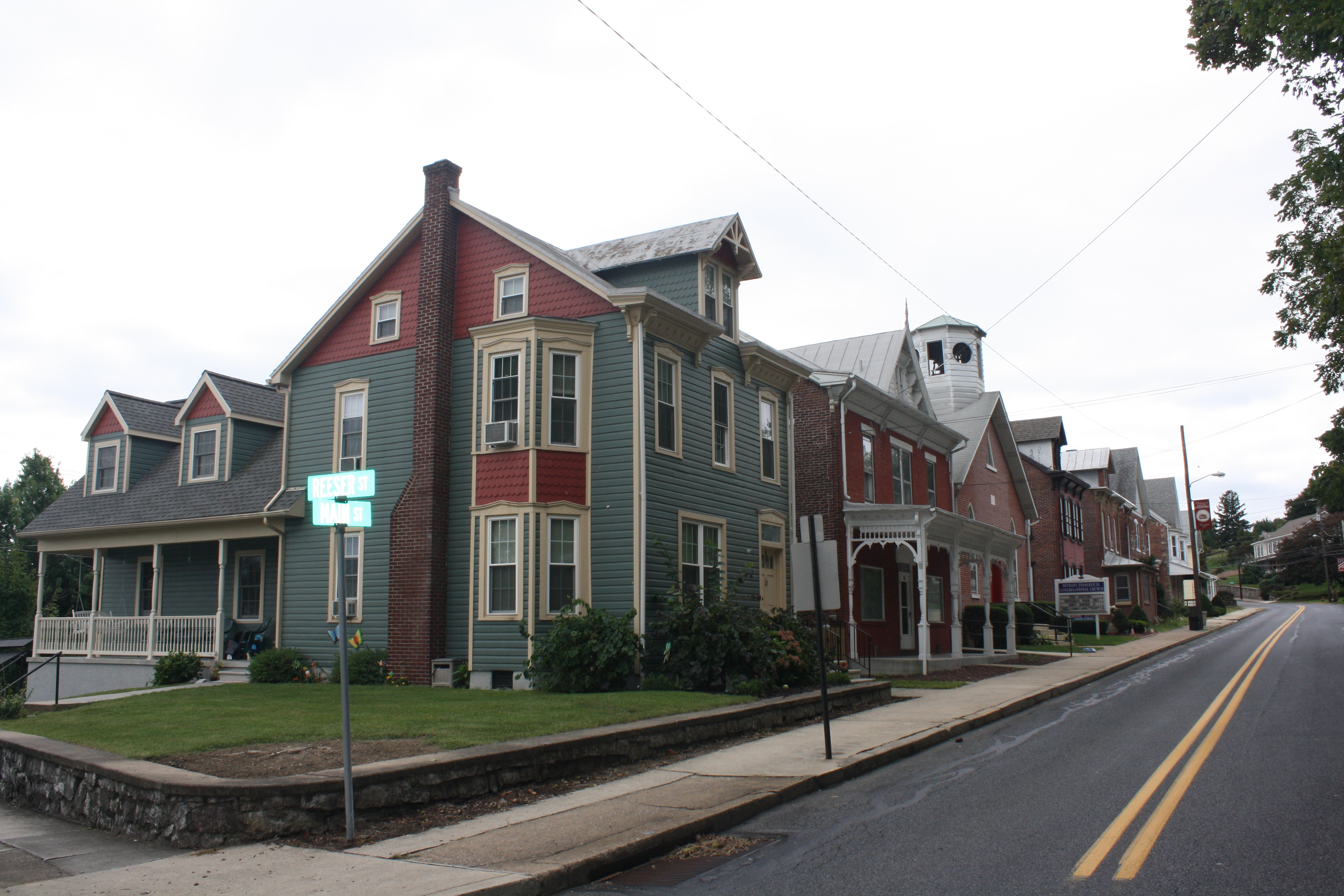 Leesport, Pennsylvania, Main Street, corner of Reeser St.